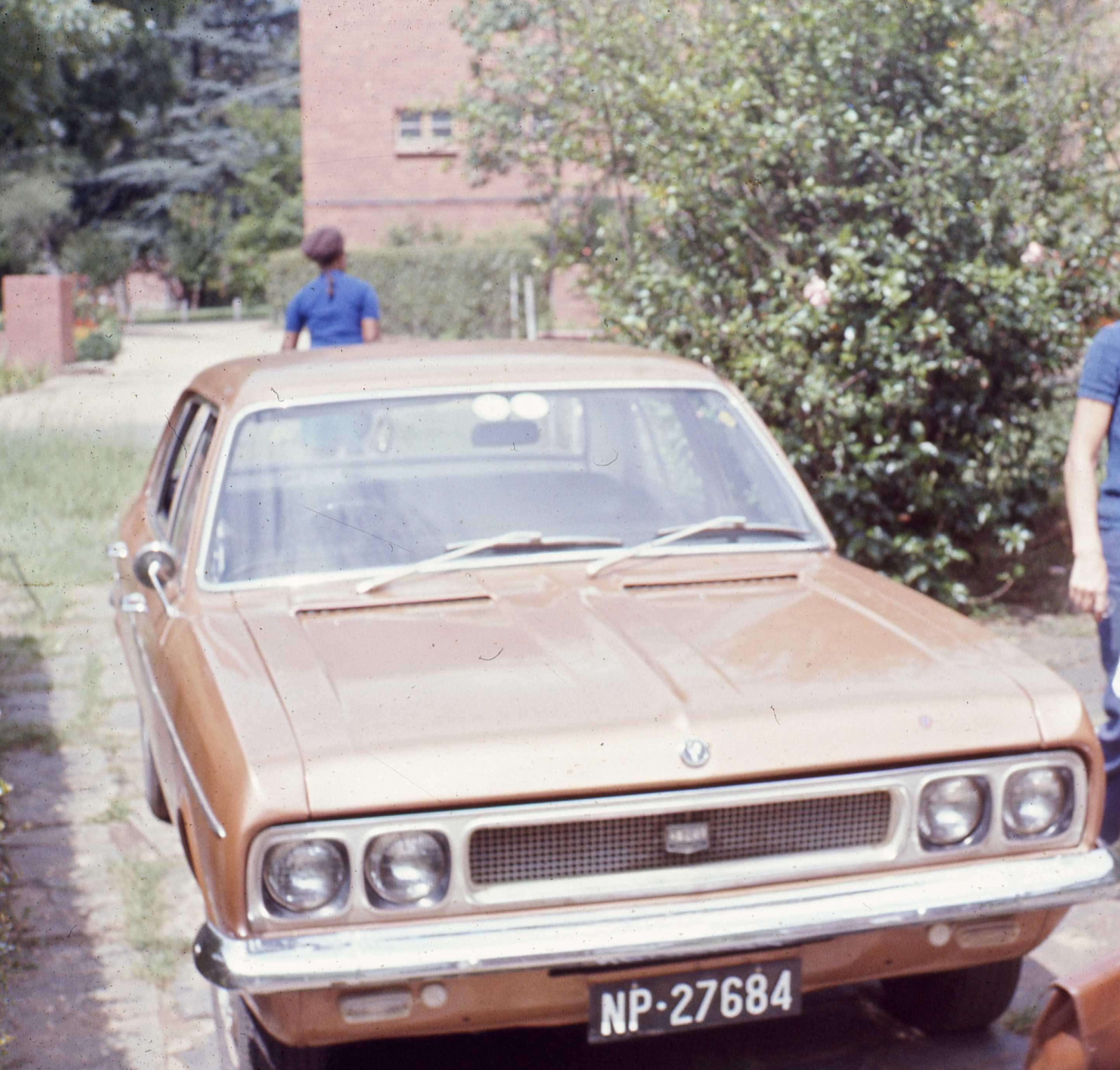 Photo of General Motors Ranger (South African model).